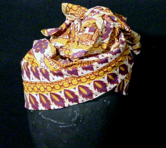 Cotton headscarf with imitation batik